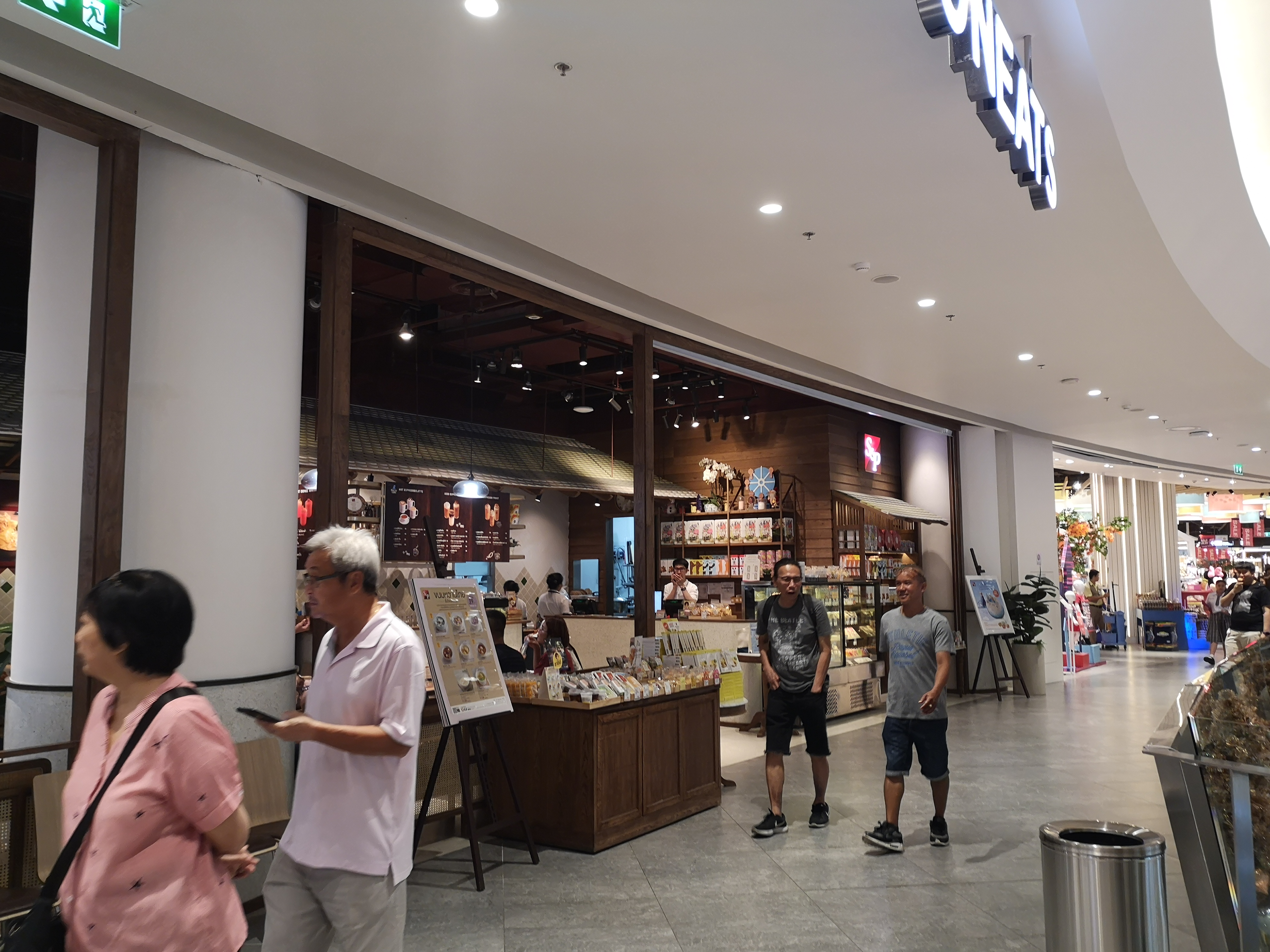 S&P at Icon Siam